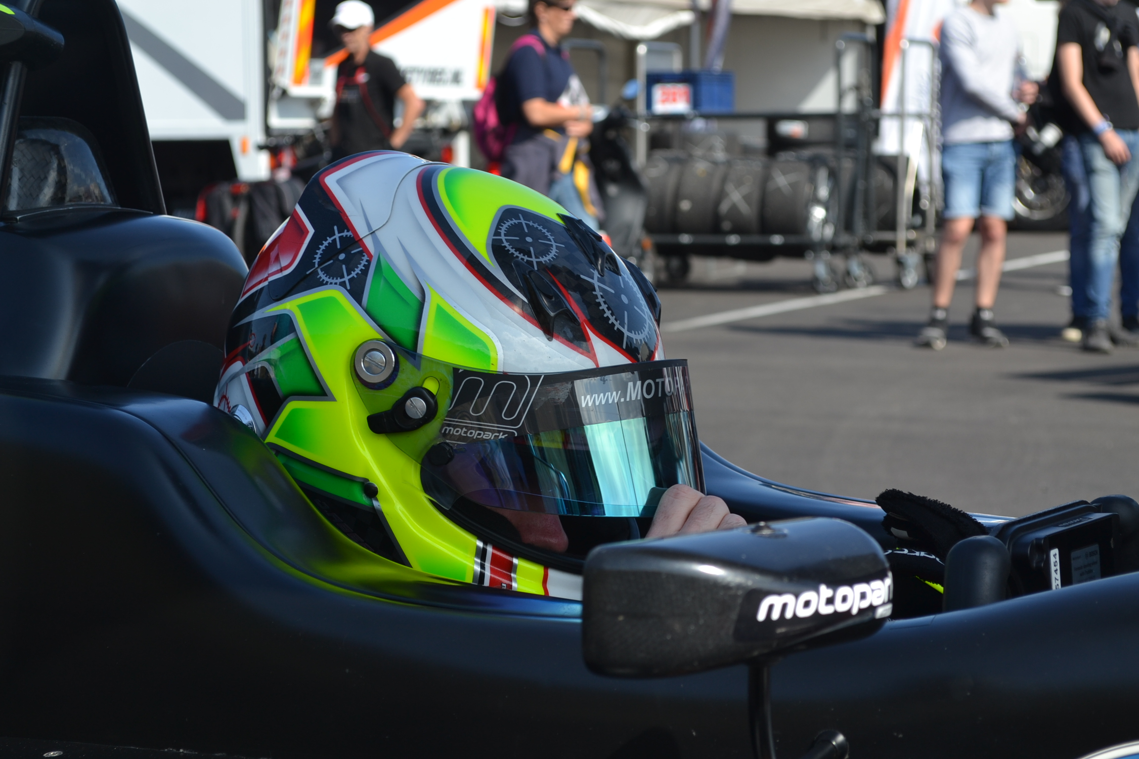 Jonathan Aberdein during the FIA Formula 3 round at Zandvoort.